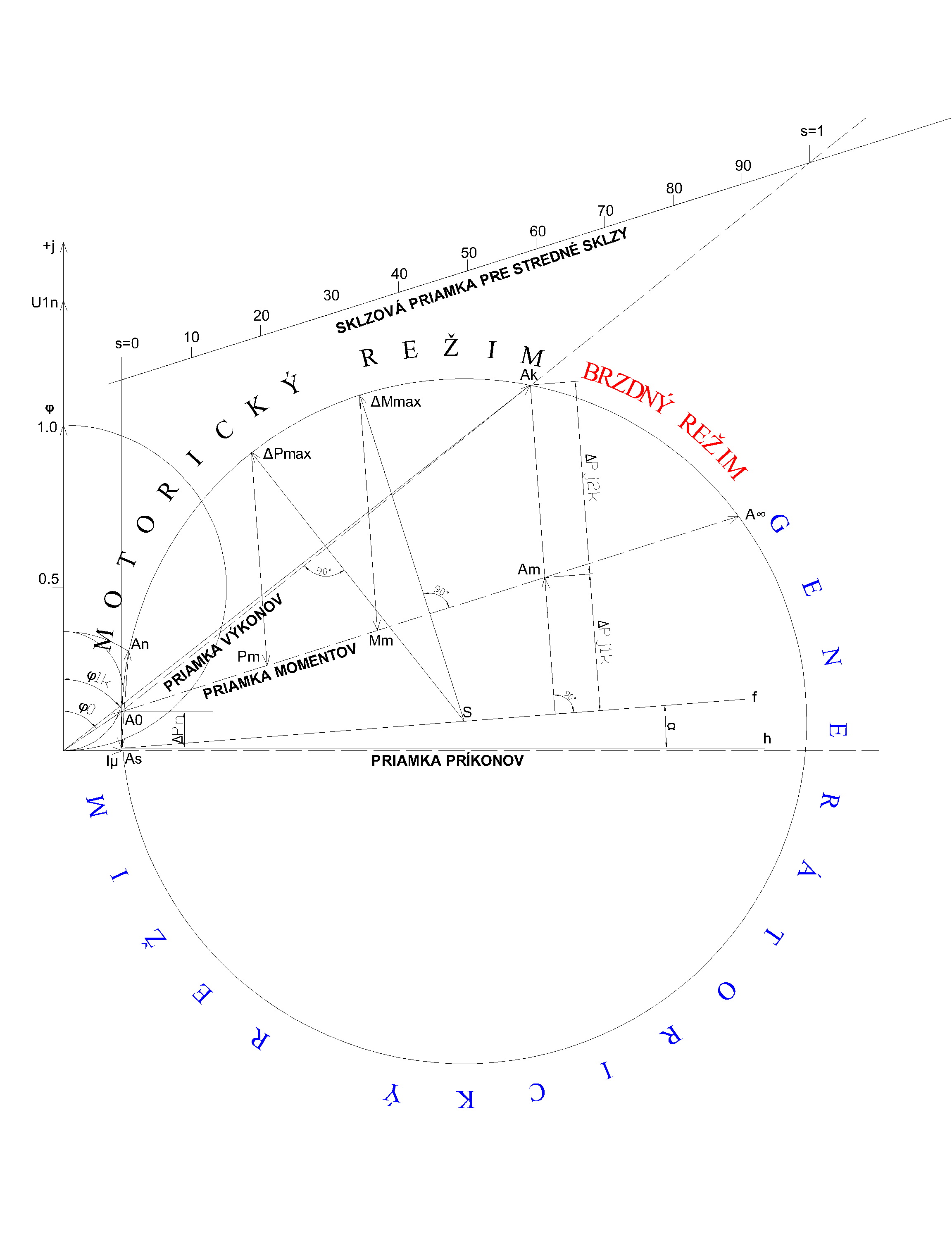 Circle diagram of an asynchronous motor